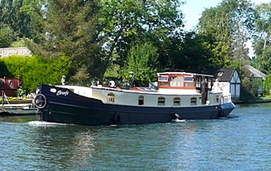 A recreational Dutch barge at Henley